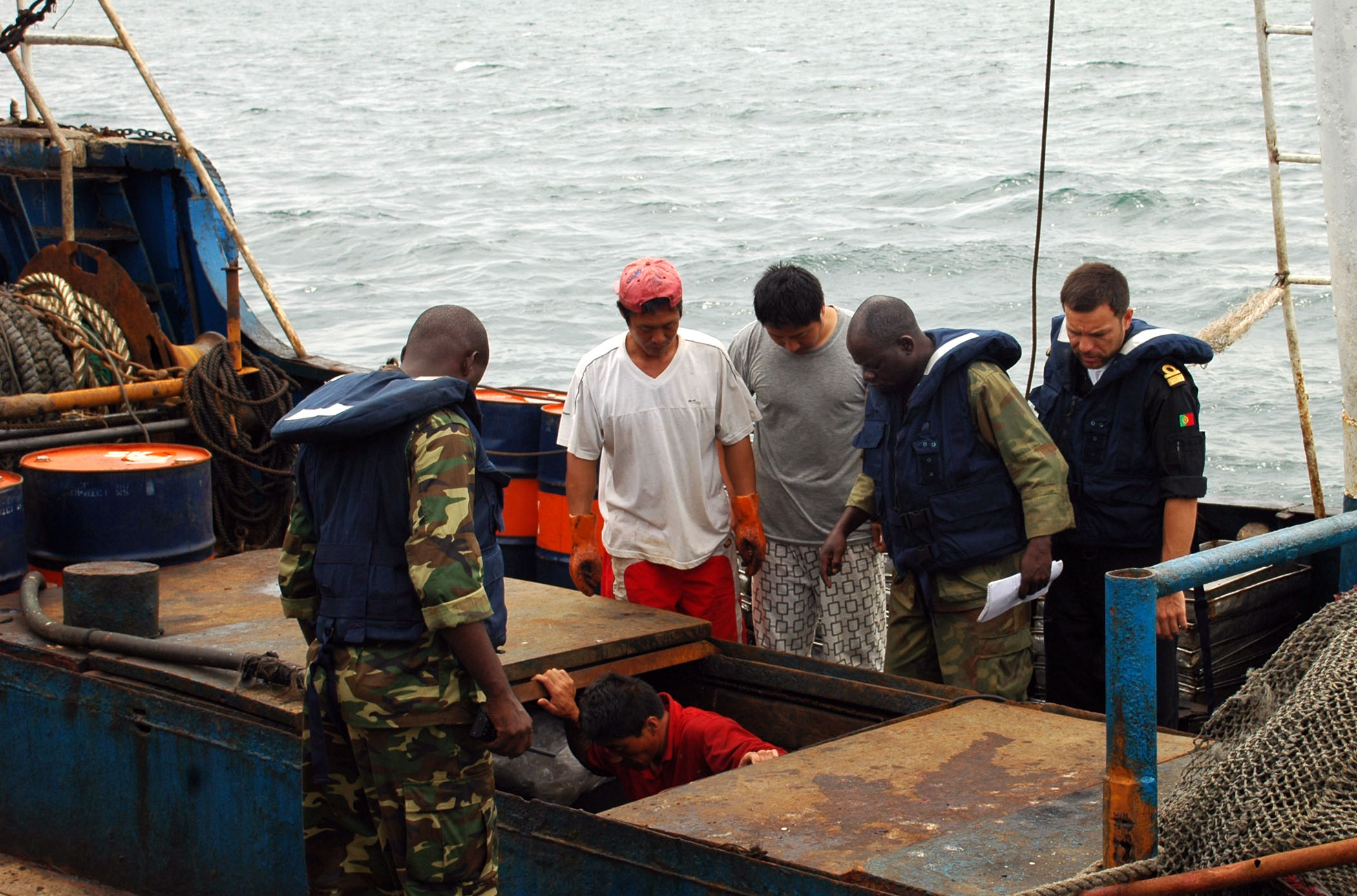 PORT GENTIL, Gabon (April 29, 2009) Portuguese Navy Lt. Cmdr. Antonio Mourinha and Gabonese sailors inspect a holding bay for fish aboard an illegal fishing vessel during an Africa Partnership Station Nashville fisheries engagement. Africa Partnership Station is a multinational initiative developed by Commander, U.S. Naval Forces Europe and Commander, U.S. Naval Forces Africa to work with U.S. and international partners to enhance maritime safety and security on the African continent. (U.S. Navy photo by Mass Communication Specialist 2nd Class David Holmes/Released)